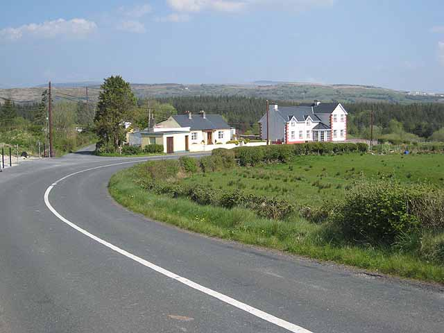 Bend on the R286 A broad sweep in the main road on the descent from the Benbo range, giving commanding views over the Shanyaus valley and the hills beyond.